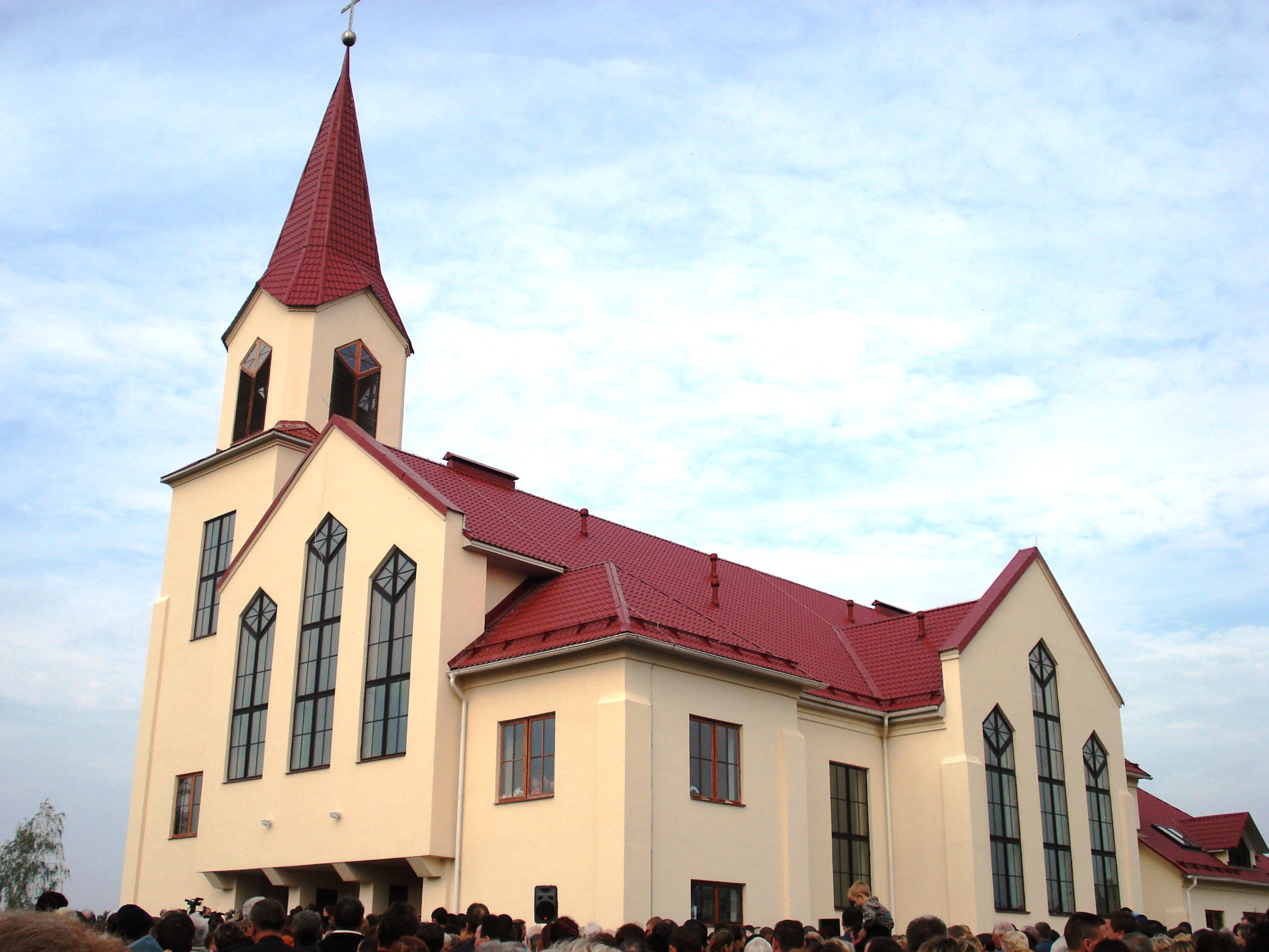 Daugavpils Sacred Heart of Jesus Roman Catholic Church, 3 Baložu St., opened in 2006. Photo taken in the opening day.